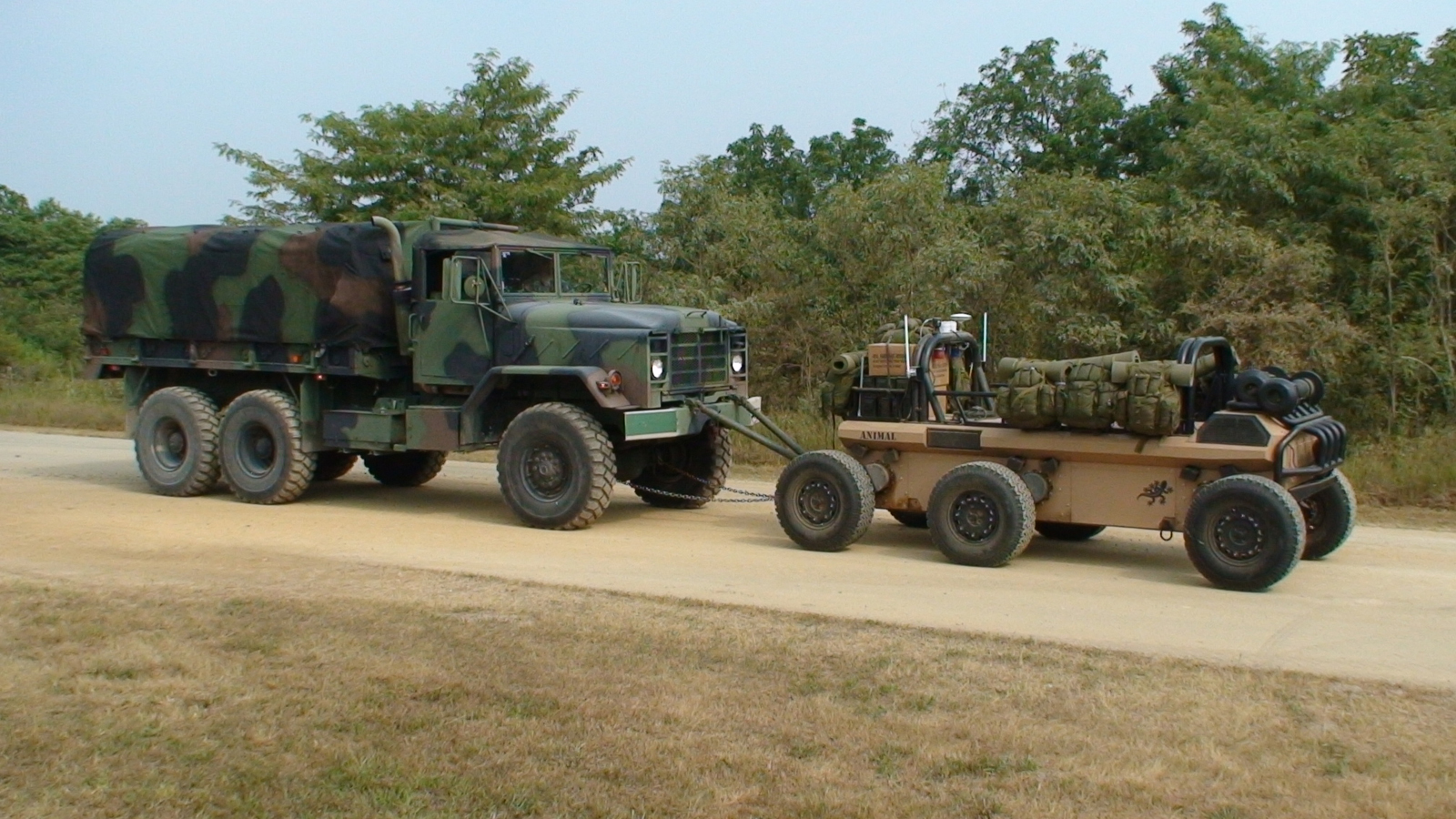 FCS MULE towing a truck